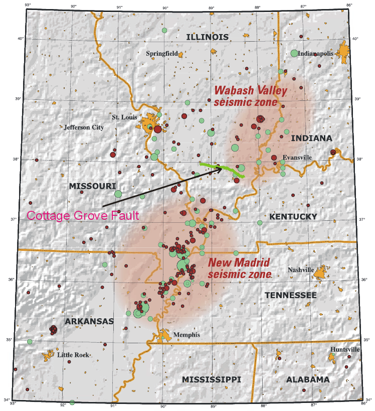 This map of the New Madrid and Wabash Valley seismic zones shows earthquakes as circles. Red circles indicate earthquakes that occurred from 1974 to 2002 with magnitudes larger than 2.5 located using modern instruments (University of Memphis). Green circles denote earthquakes that occurred prior to 1974 (USGS Professional Paper 1527). Larger earthquakes are represented by larger circles. The Cottage Grove Fault is indicated by the green line.